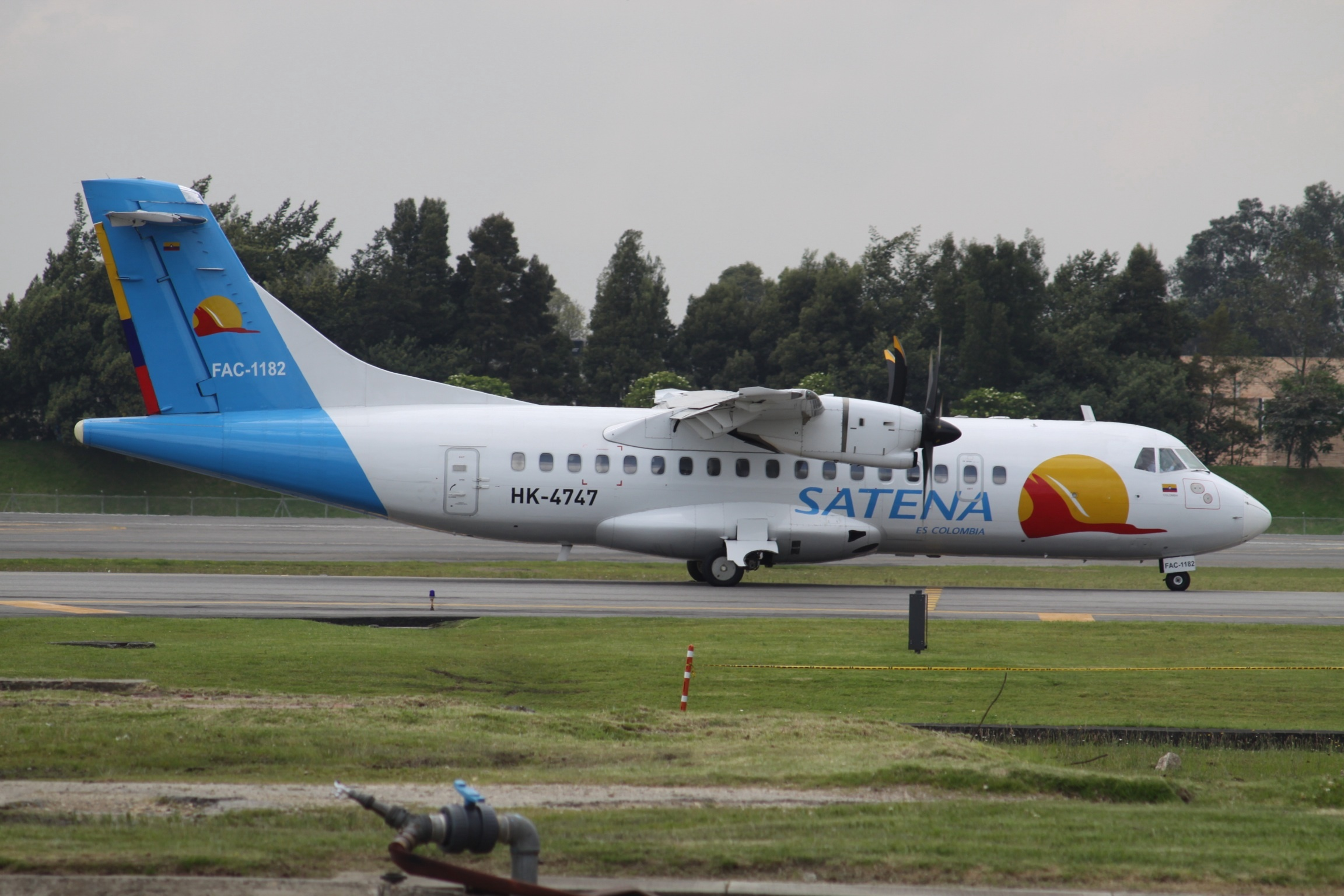 At Bogota El Dorado International